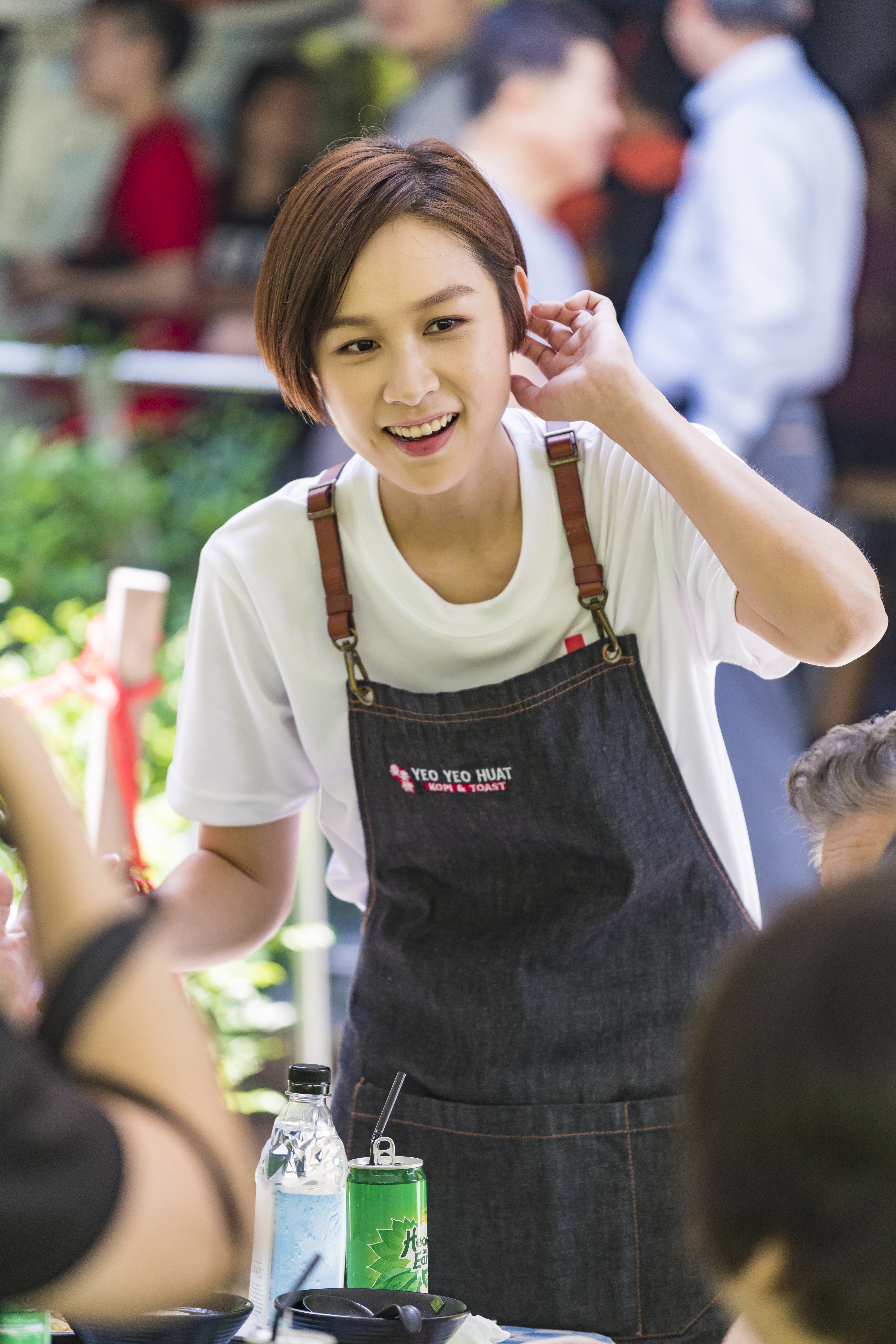 mediacorp actress Ya Hui at Singapore Red Cross charity event 2018